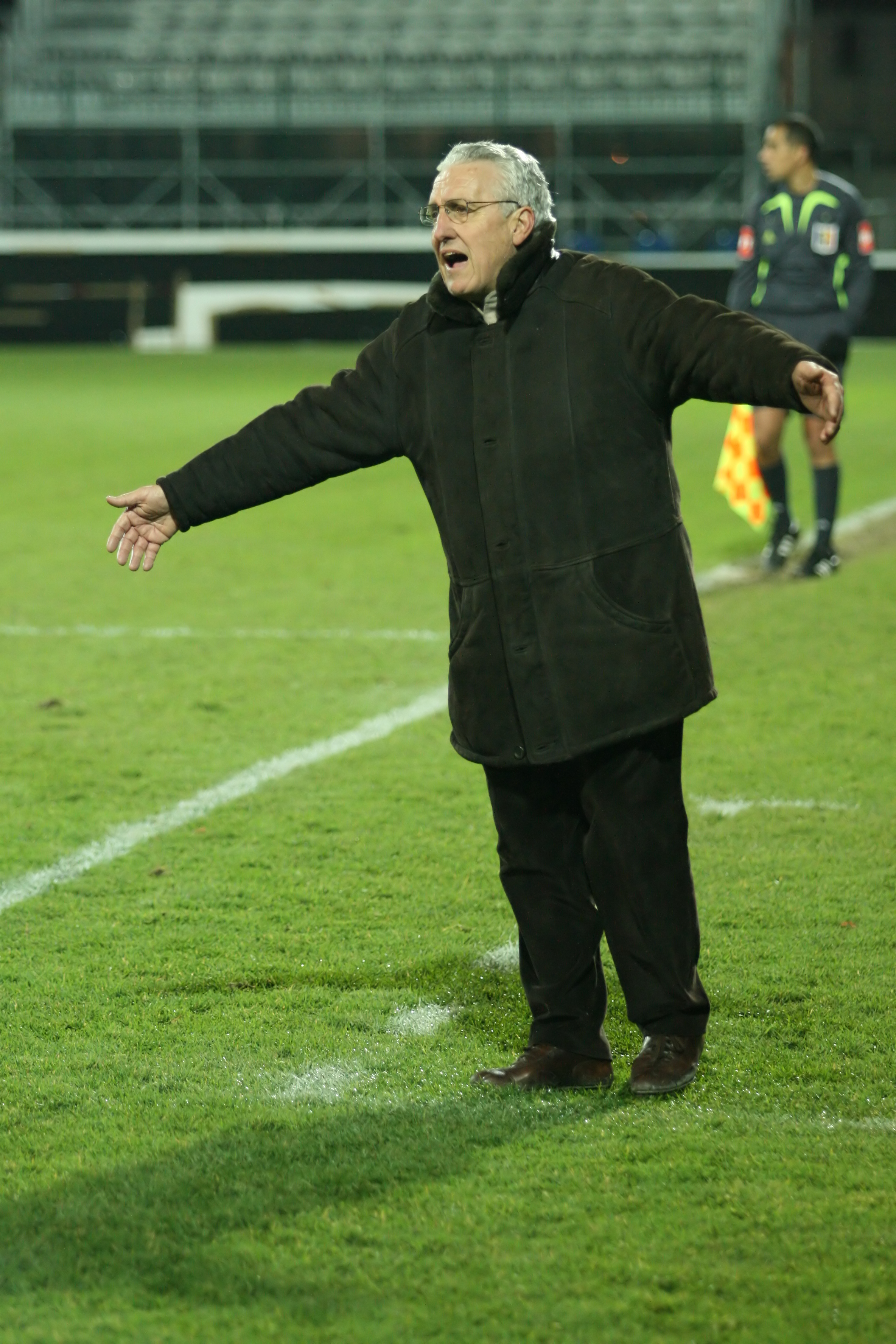 French former football player and coach Robert Nouzaret as coaching Guinea national team during match against Côte d'Ivoire in Rouen.